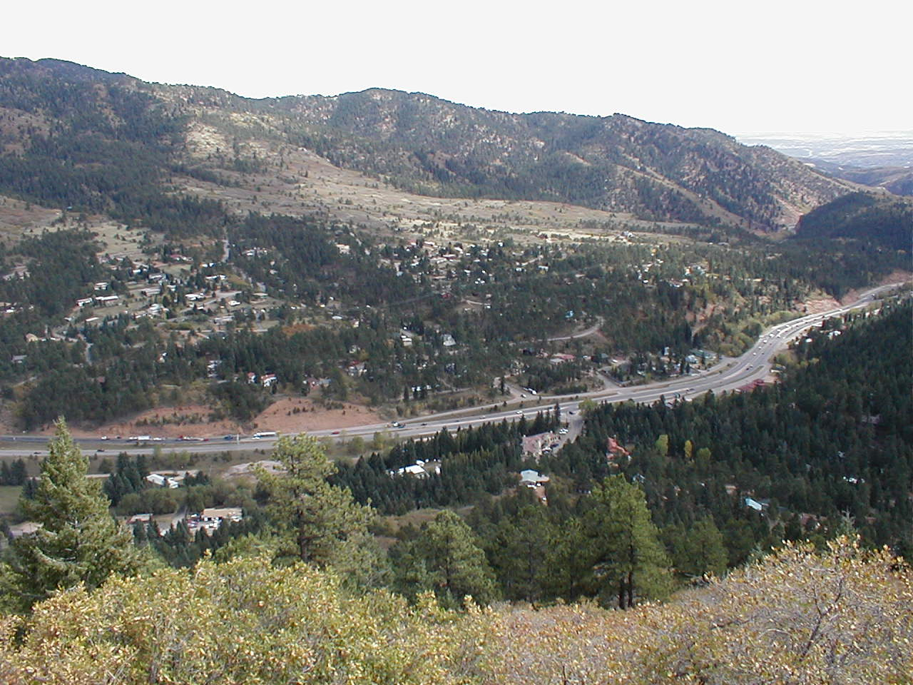 U.S. Route 24 near Woodland Park, viewed from Pike's Peak